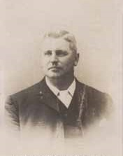 Alfred Henry Scott Lib Ashton-under-Lyne 06 – D10